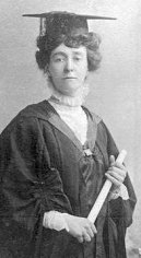 Suffragette Emily Davison as a graduate